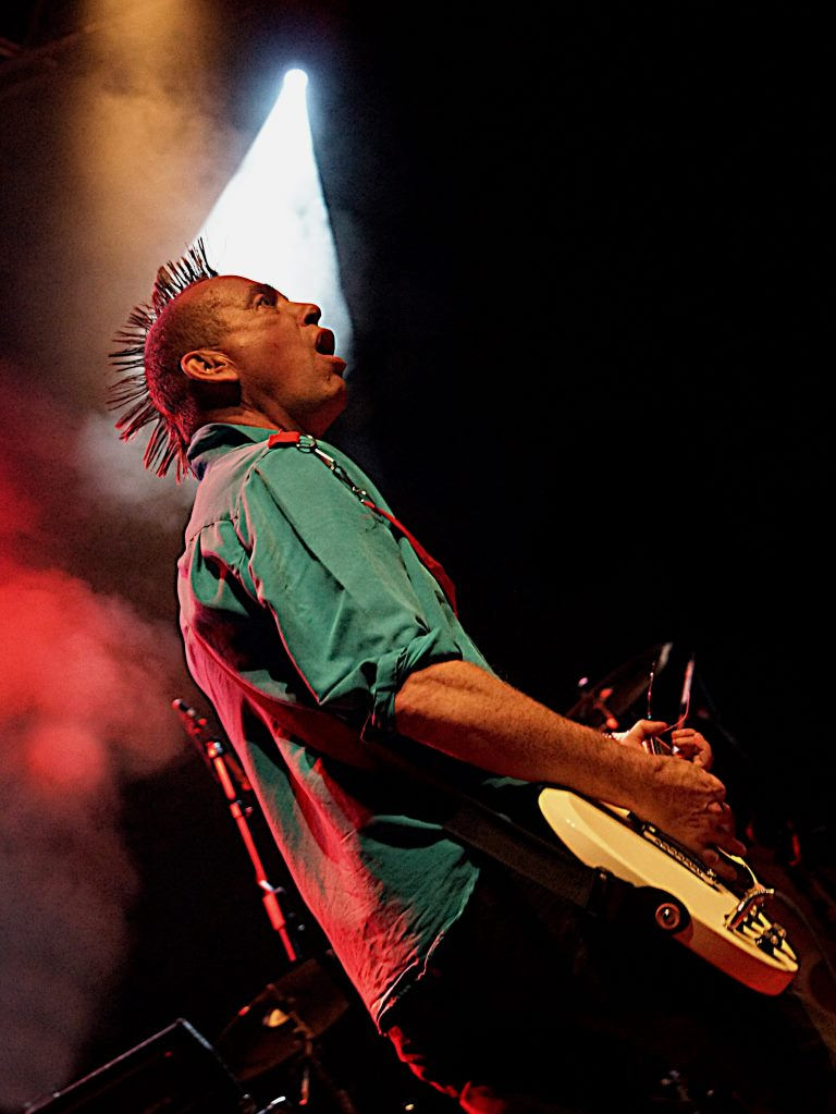 Chelsea performing at the Ritz, Manchester, as part of the North West Calling Punk Festival on Saturday 16th May 2015